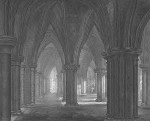 Crypt of Glasgow Cathedral, looking east